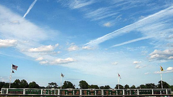 Sky and Infield Tote Board at Monmouth Park Racetrack in New Jersey